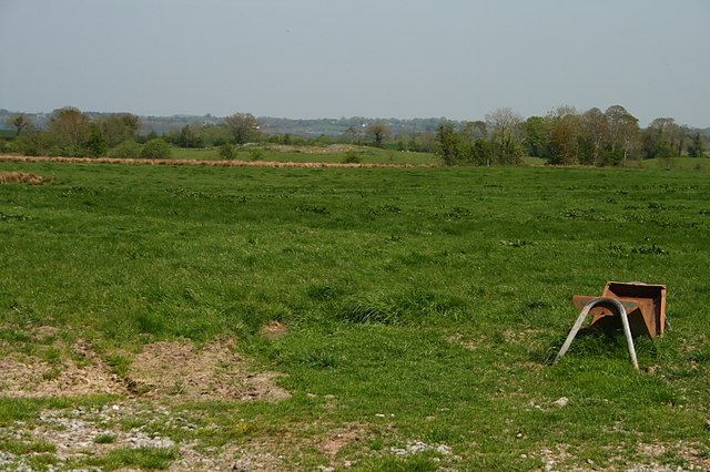 Ballard Fieldscape Fieldscape at Ballard with distant glimpse of Lough Owel.